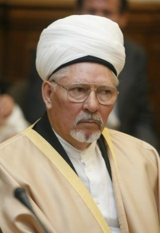 на заседании общественного совета при ГУ МВД по СПб